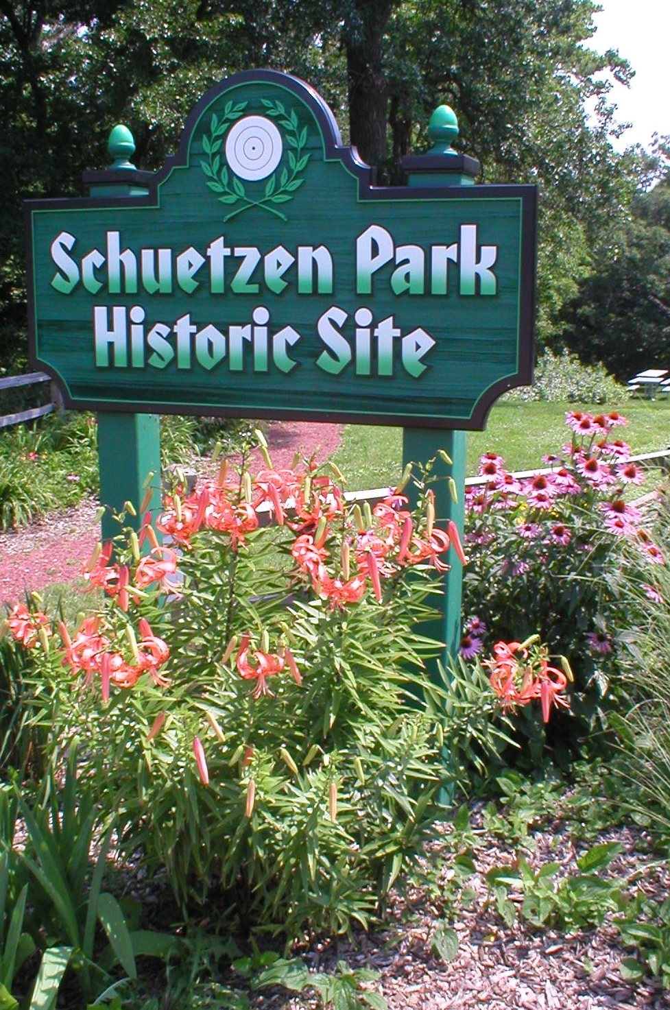 Colorful welcome sign located at the Schuetzen Park Historic Site in west Davenport, IOWA.